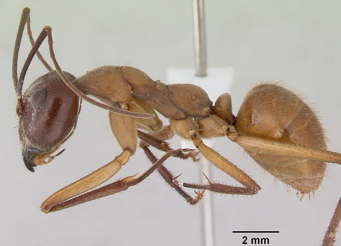 Profile view of ant Notostigma foreli specimen casent0172068.